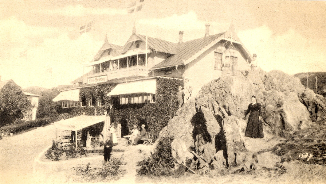 Hotel Mölleberg in Mölle, Sweden, around 1900.